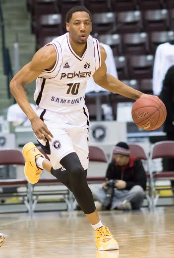 Mississauga Power player Marcus Capers dribbles the basketball.